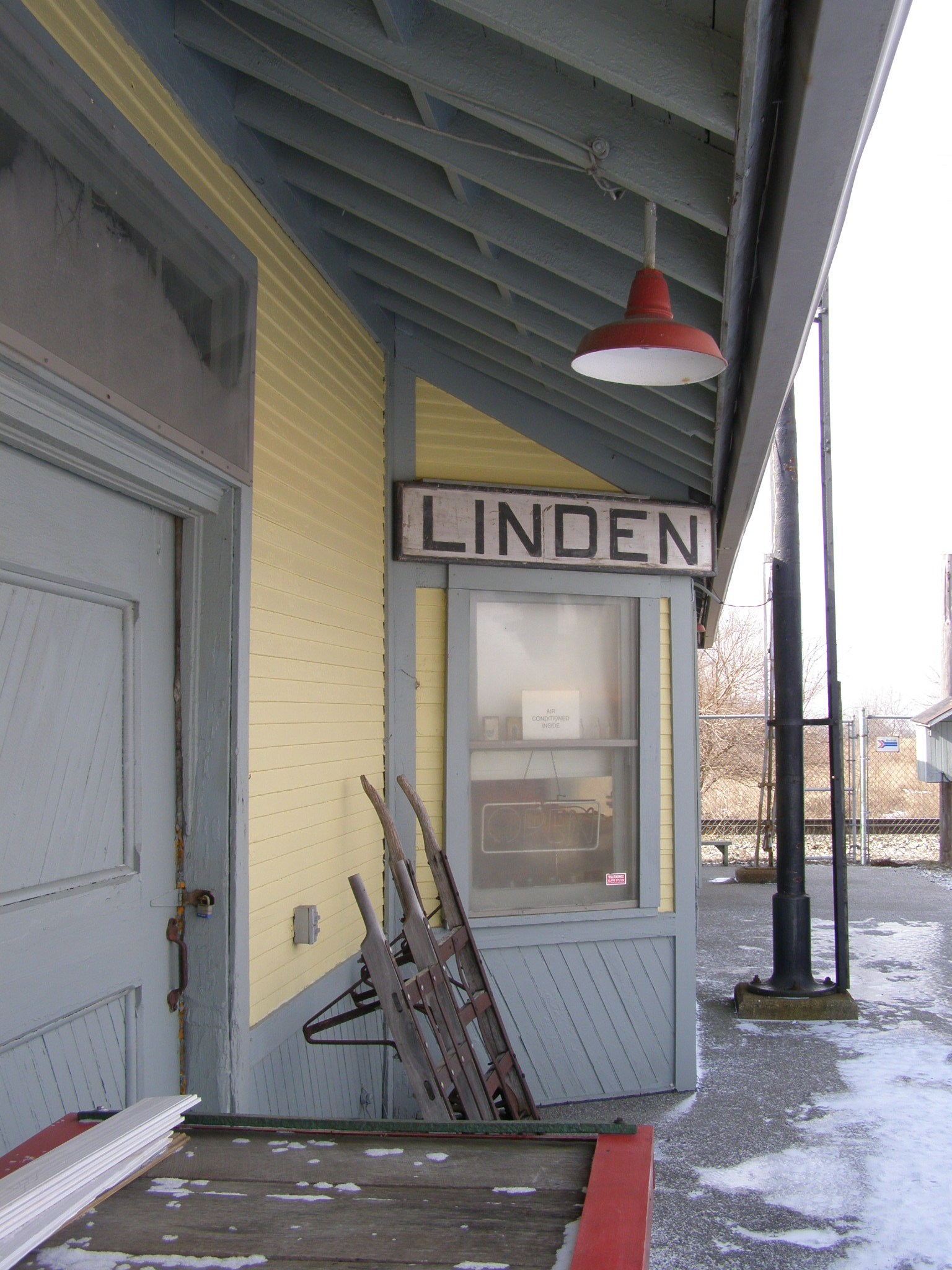 Monon Station (disused), Linden, Indiana (track side)